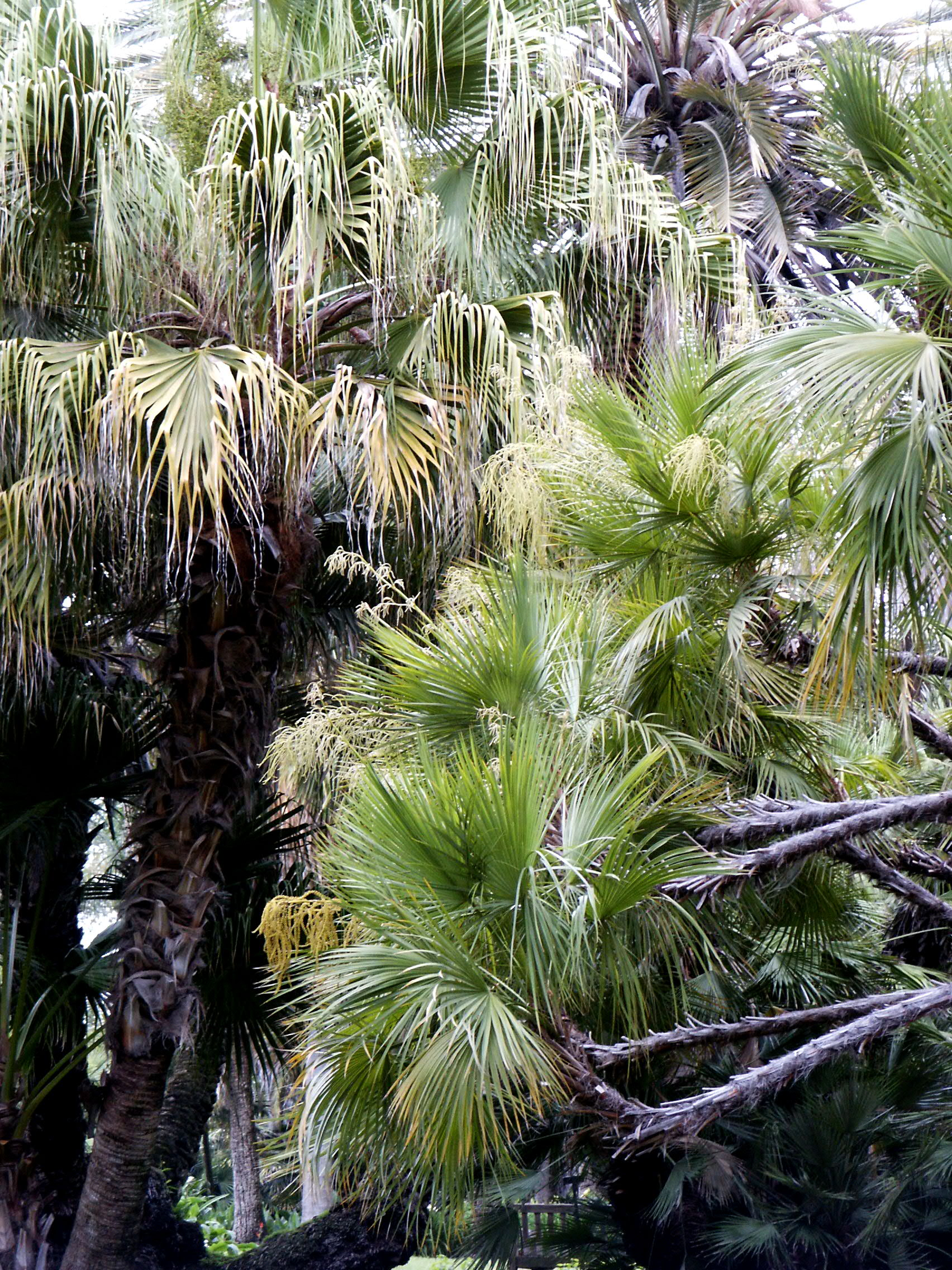 Livistona nitida, Huntington Library Gardens - Fan Palm tree fronds that are extremely long and feather like